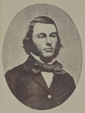 Captain William Cutfield King, elected to the New Zealand Parliament in November 1860 and killed in the First Taranaki War in February 1861.